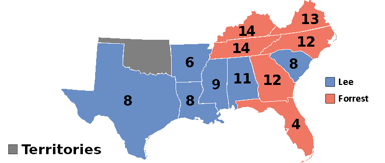 Guns of the South is an alternate history novel with the divergence involving time travelers from the future sending shipments of modern arms including AK-47's to prevent the Union from winning. This shows the election of 1867 for this surviving confederacy.